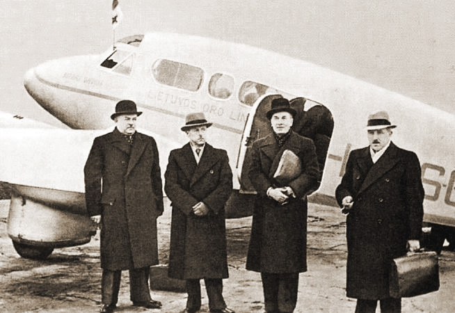 Lithuanian delegation before departing to Moscow to negotiate the Soviet–Lithuanian Mutual Assistance Treaty. From left: Jonas Norkaitis, General Stasys Raštikis, Foreign Minister Juozas Urbšys, and Deputy Prime Minister Kazys Bizauskas. The aircraft is a Percival Q.6.